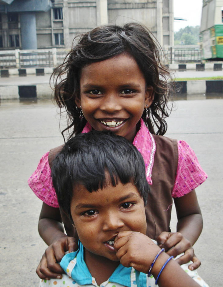 Devi and Arul, two street children. Thiruvanmiyur, Chennai.